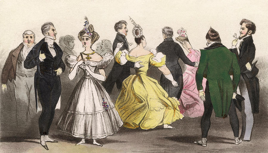 Illustration of a ball at Almack's Assembly Rooms, King Street, London